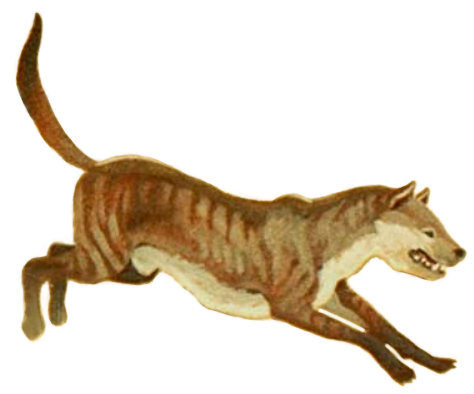 Tephrocyon restoration